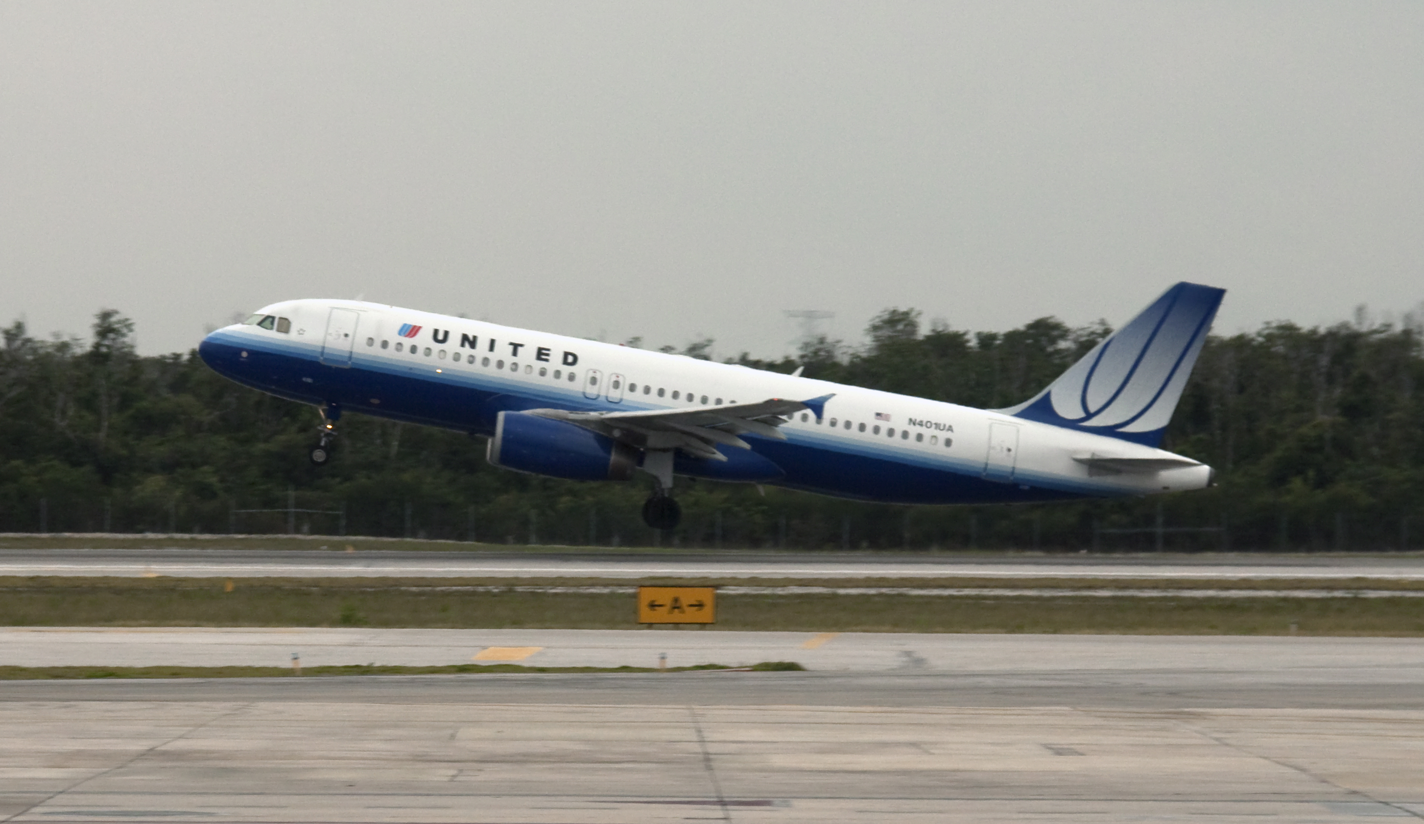 Seen at Cancun Airport while waiting for our flight home.